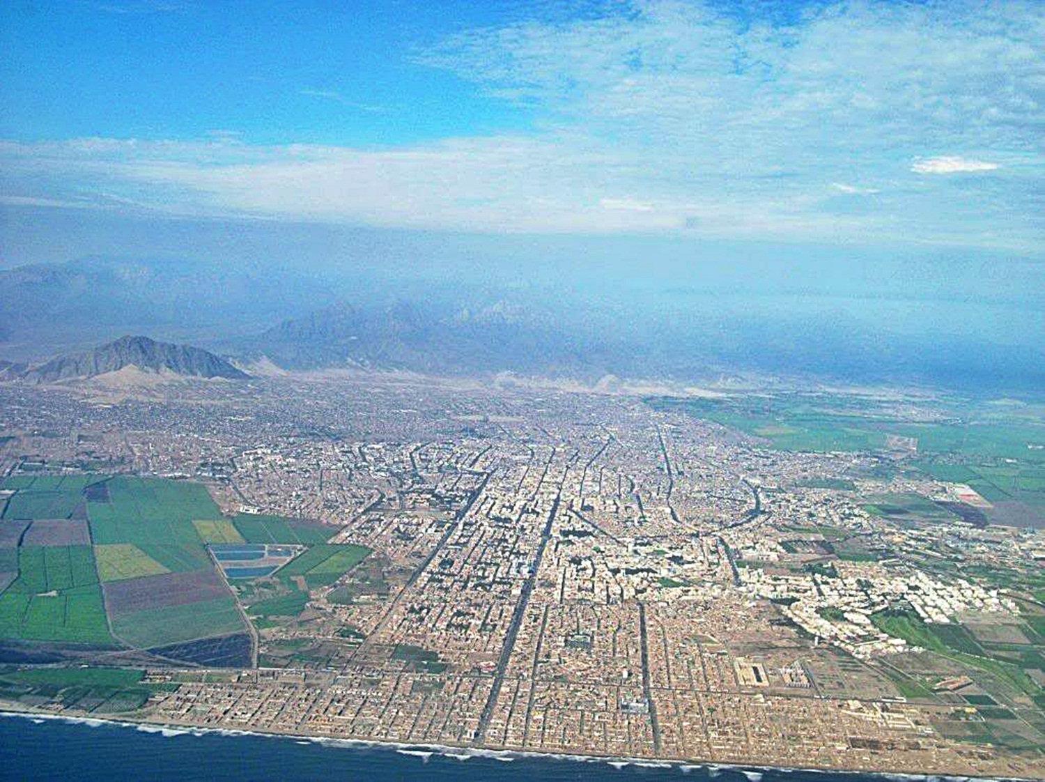 Vista de La playa de Buenos Aires y de la parte central de la ciudad de Trujillo